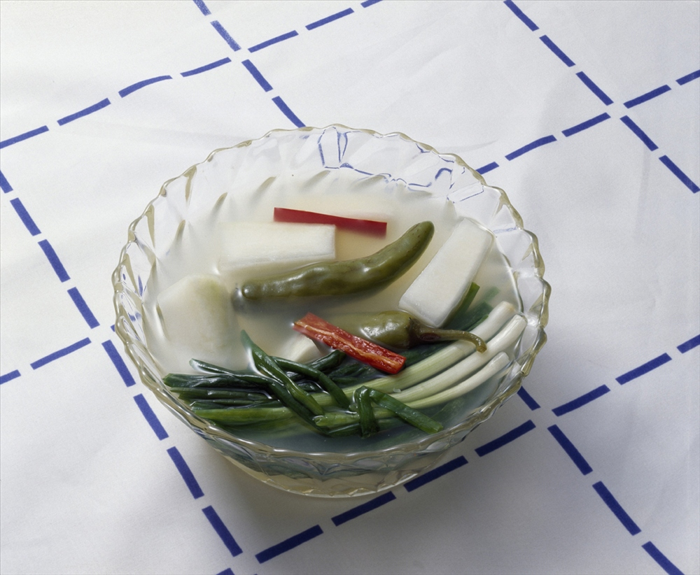 Dongchimi is another kind of kimchi which mainly consists of radish, cabbage, onions and peppers.